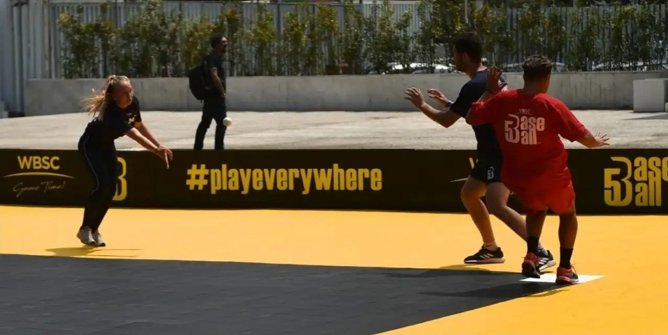 Baseball5 showcased in Rome